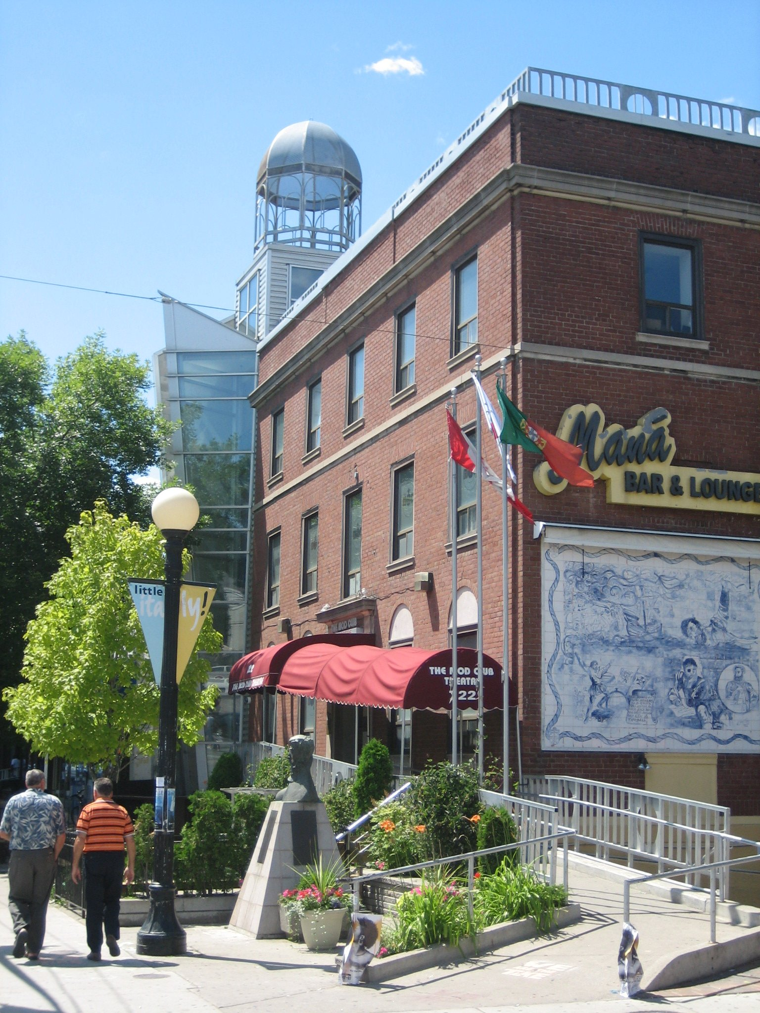 Mod Club Theatre in Toronto